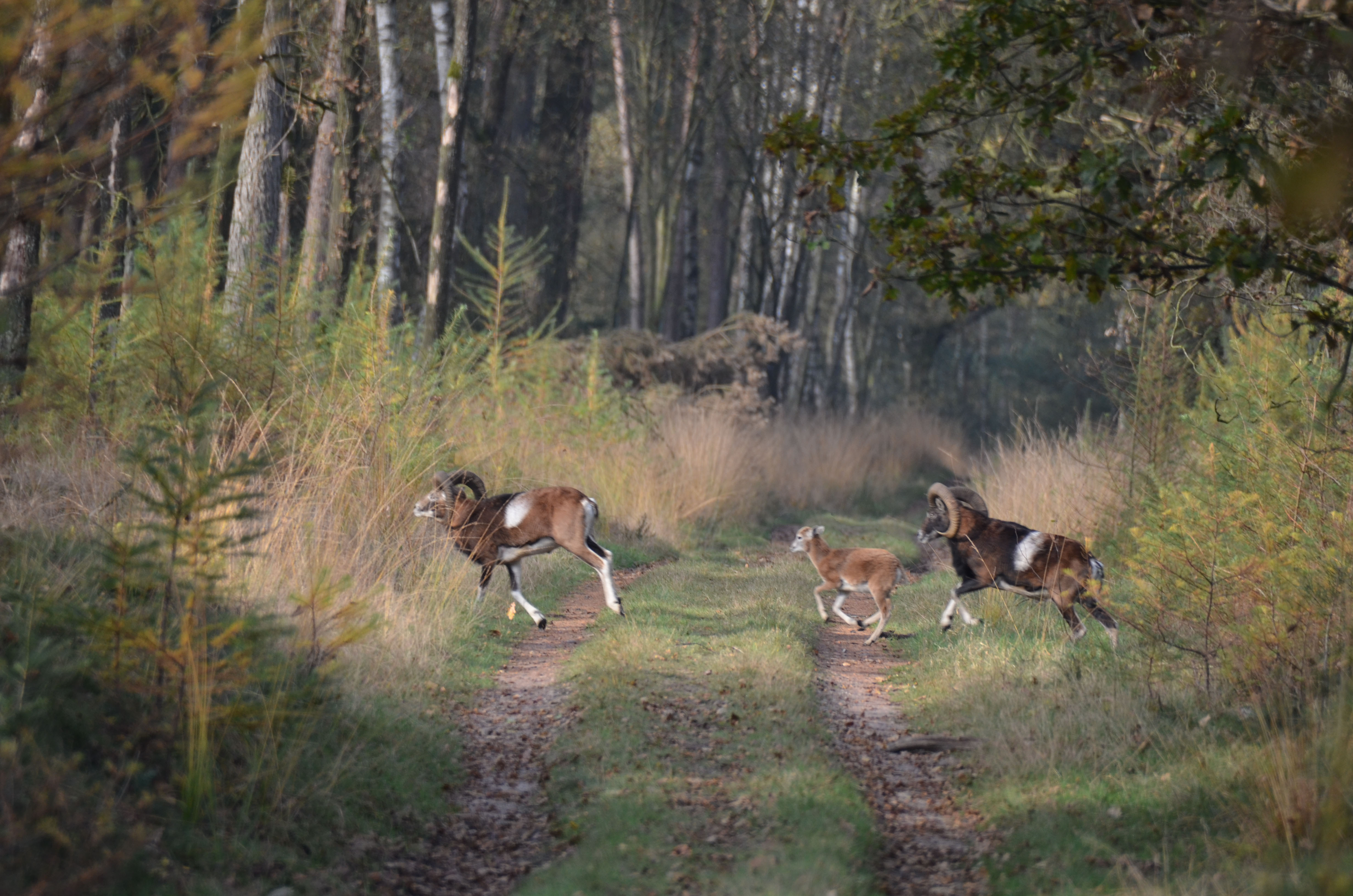 Never seen so close! Mouflons or Wild sheep (Moeflons) at National Park Hoge Veluwe